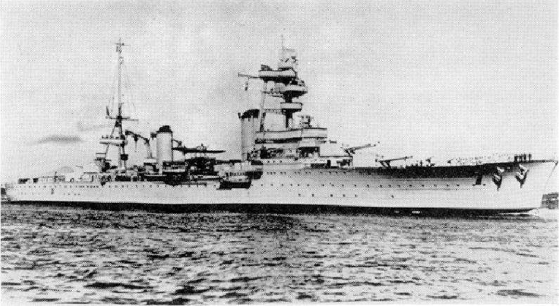 Cruiser Colbert, ONI203 booklet for identification of ships of the French Navy, published by the Division of Naval Inteligence of the Navy Department of the United States (9 November 1942).